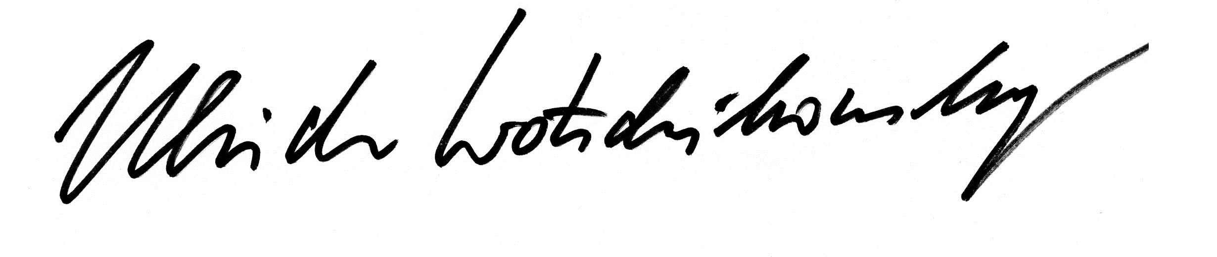 Signature of Ulrich Wotschikowsky (* 1940, + 2019)